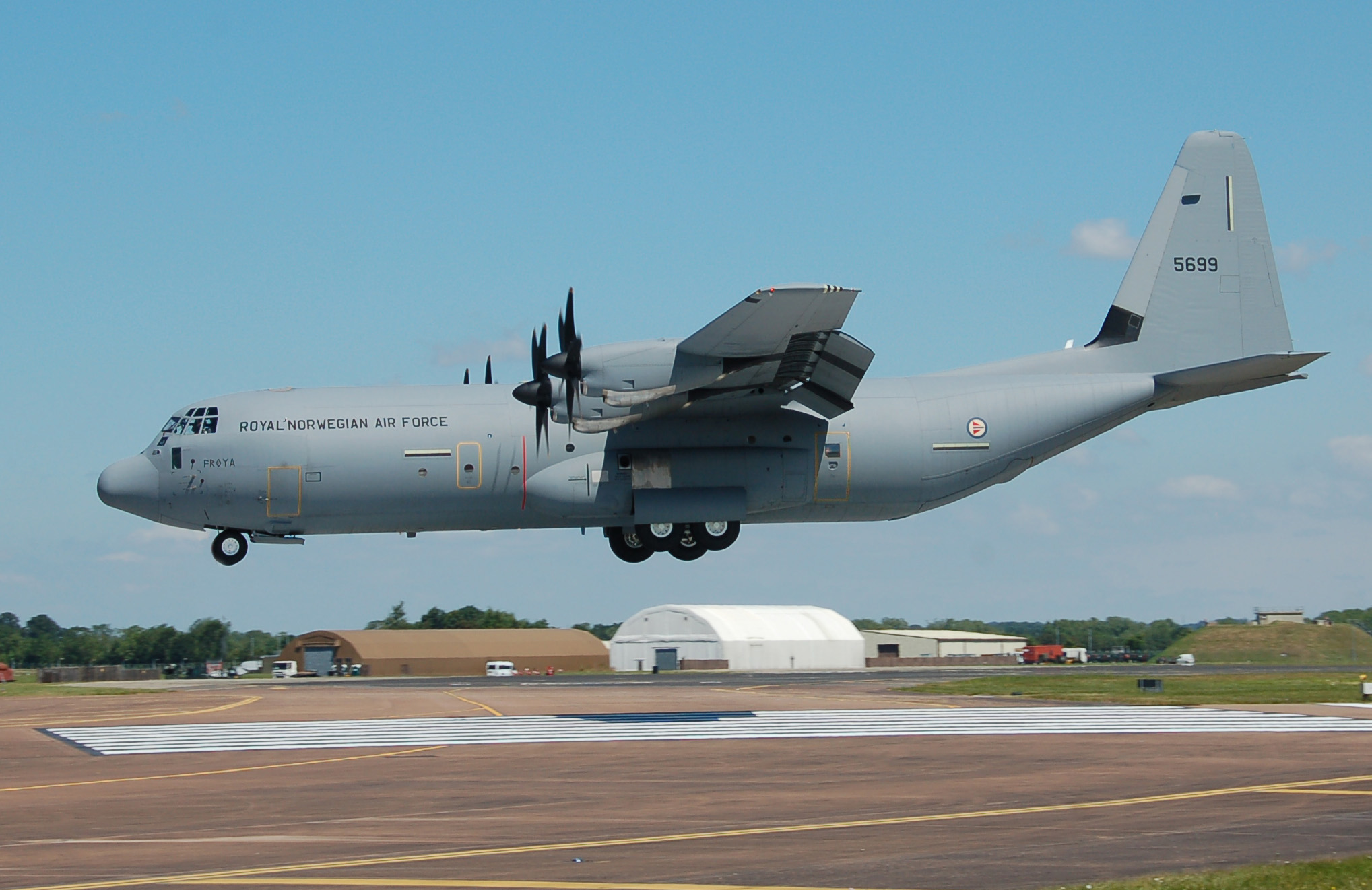 Royal Norwegian Air Force Hercules C-130J (code 5699) arrives at the 2014 Royal International Air Tattoo, RAF Fairford, Gloucestershire, England.